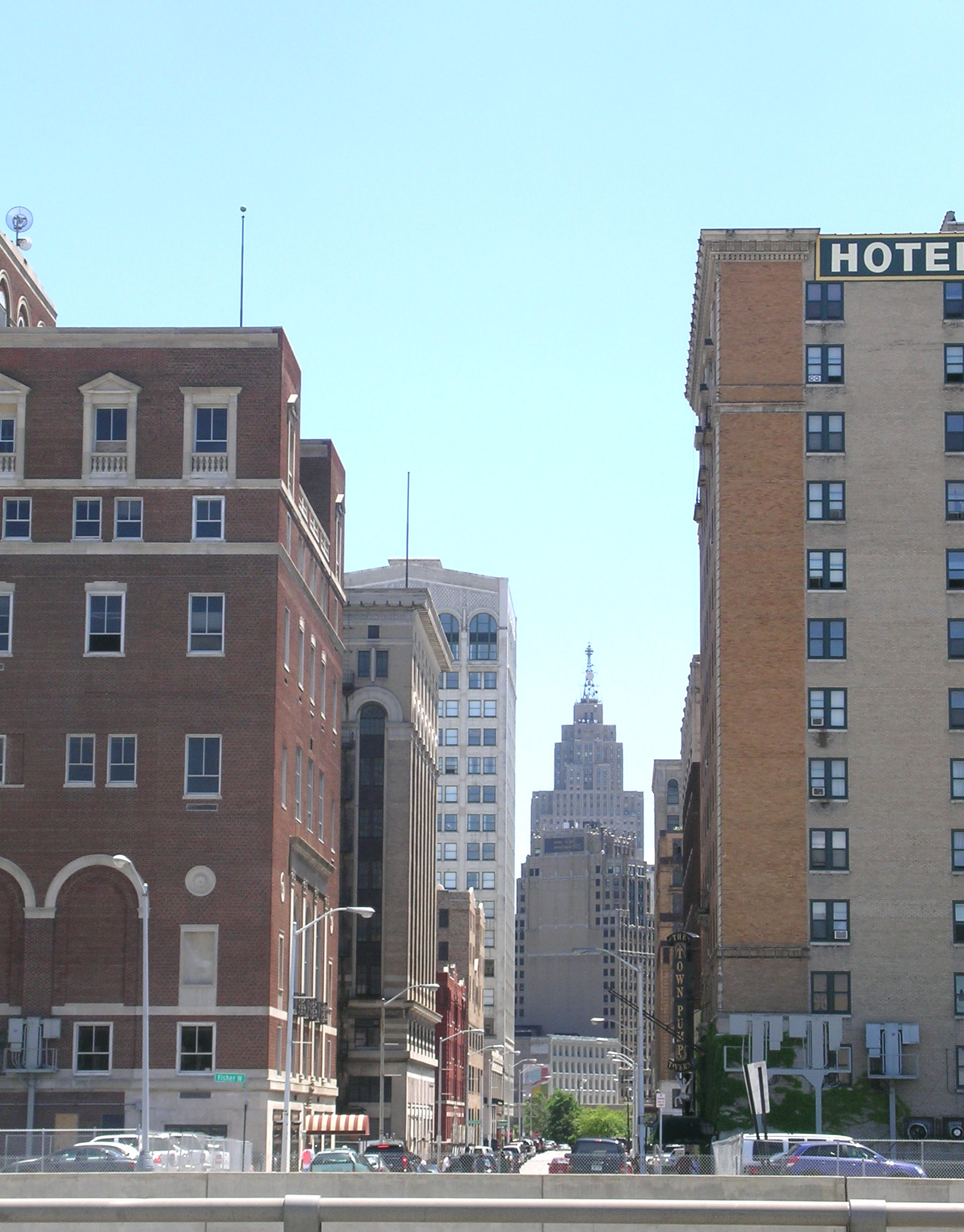 Park Avenue Histroic District, Detroit MI, from across I75.